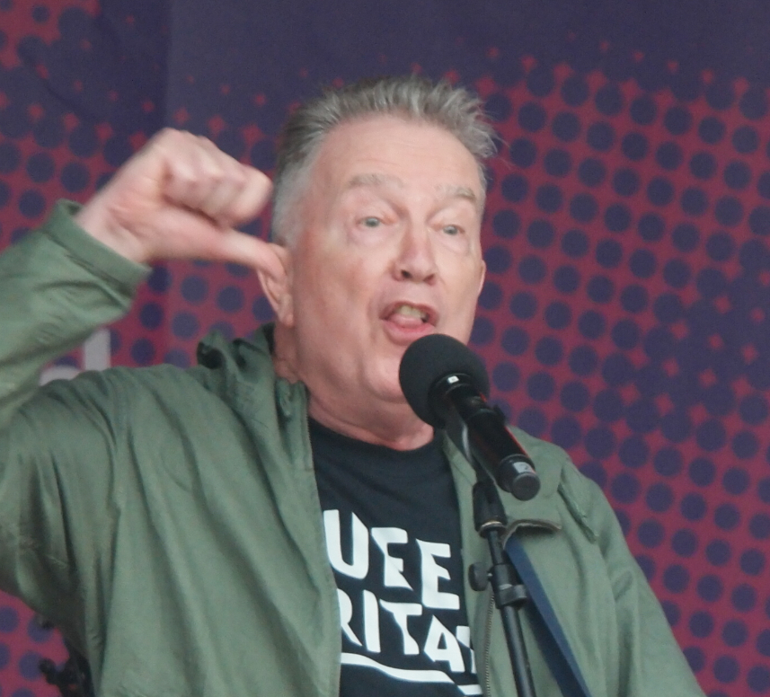 Glad to be Gay - Tom Robinson at the point of the lyric 'this way'